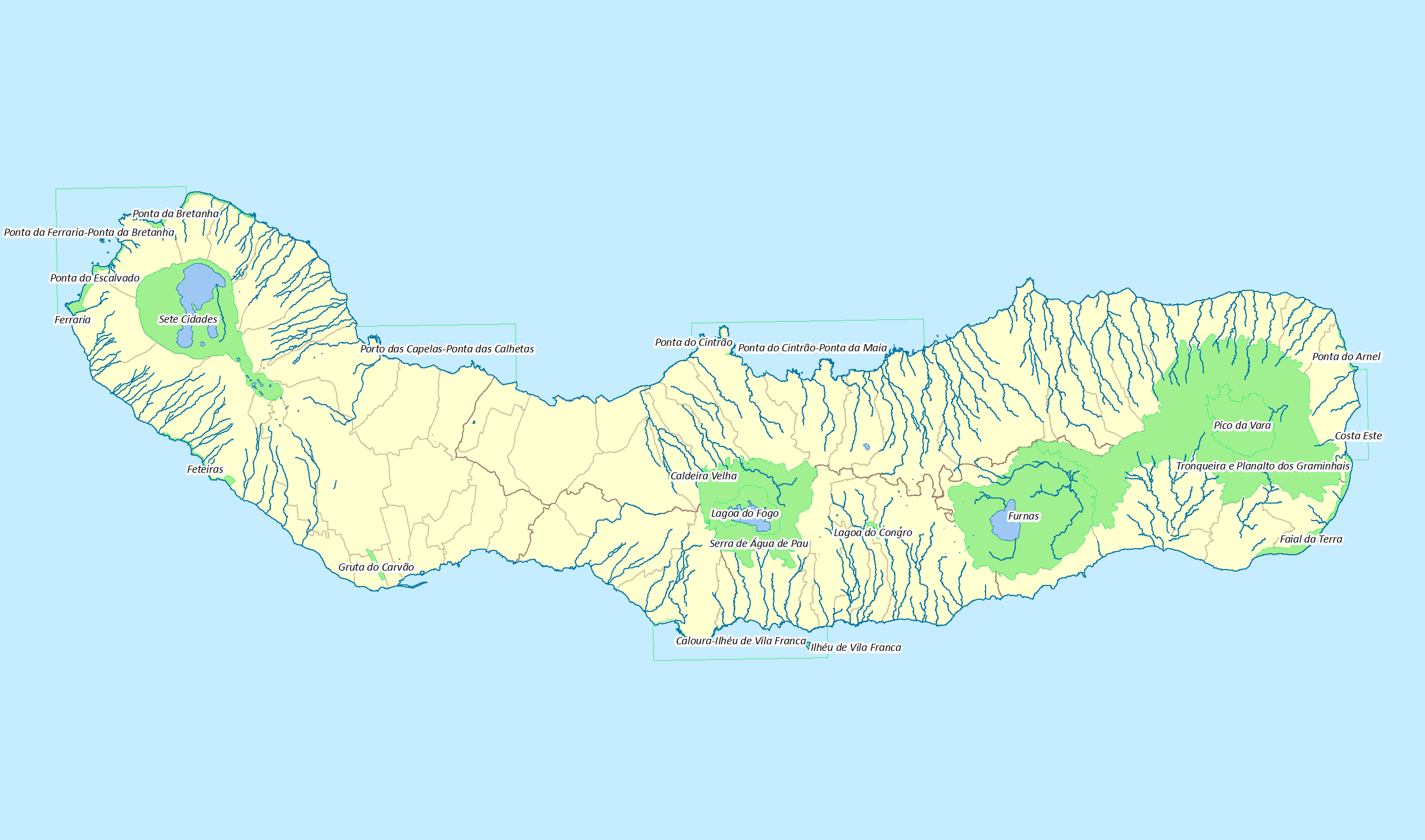 Location of the various protected areas of the São Miguel Nature Park